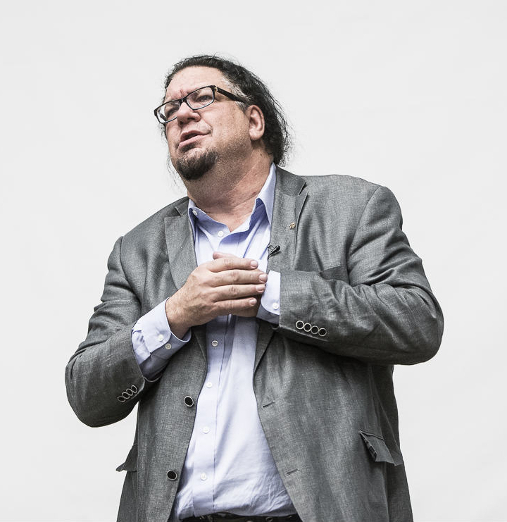 Comedian, Magician, Author and well-known atheist Penn Jillette at an appearance in Toronto, Canada, on 2 Nov 2013. Photo by Michael Willems